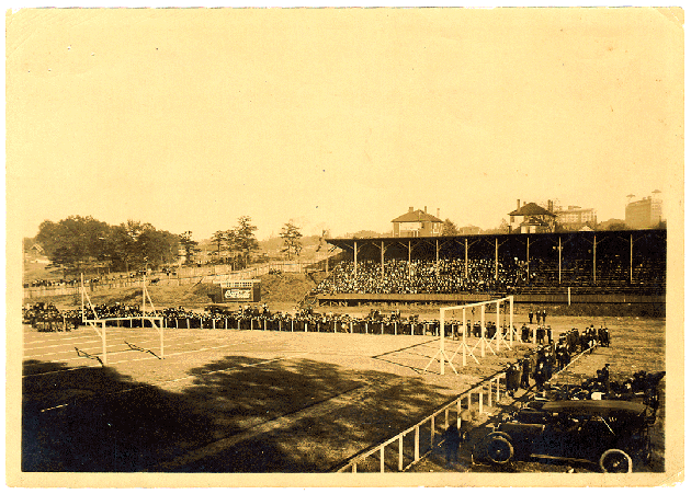 Grant Field of Georgia, predecessor of Bobby Dodd Stadium.